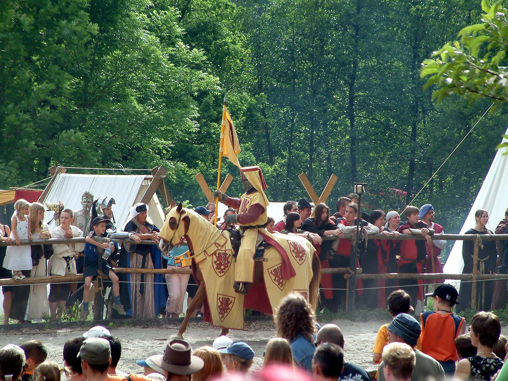 Medieval Knight to the tournament. Knight festival in Schiedam.